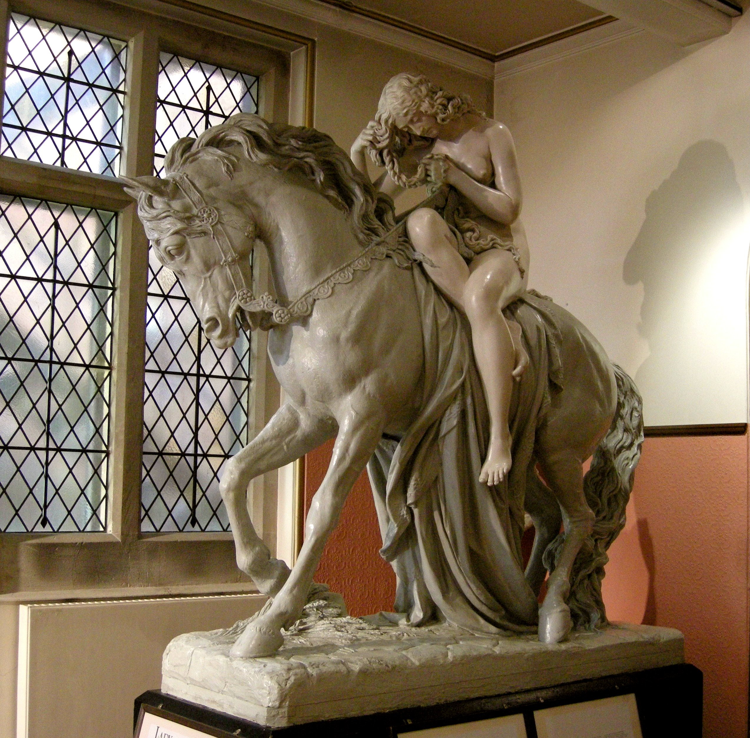 Lady Godiva statue by John Thomas (1813 – 1862), Maidstone Museum, Kent, England.